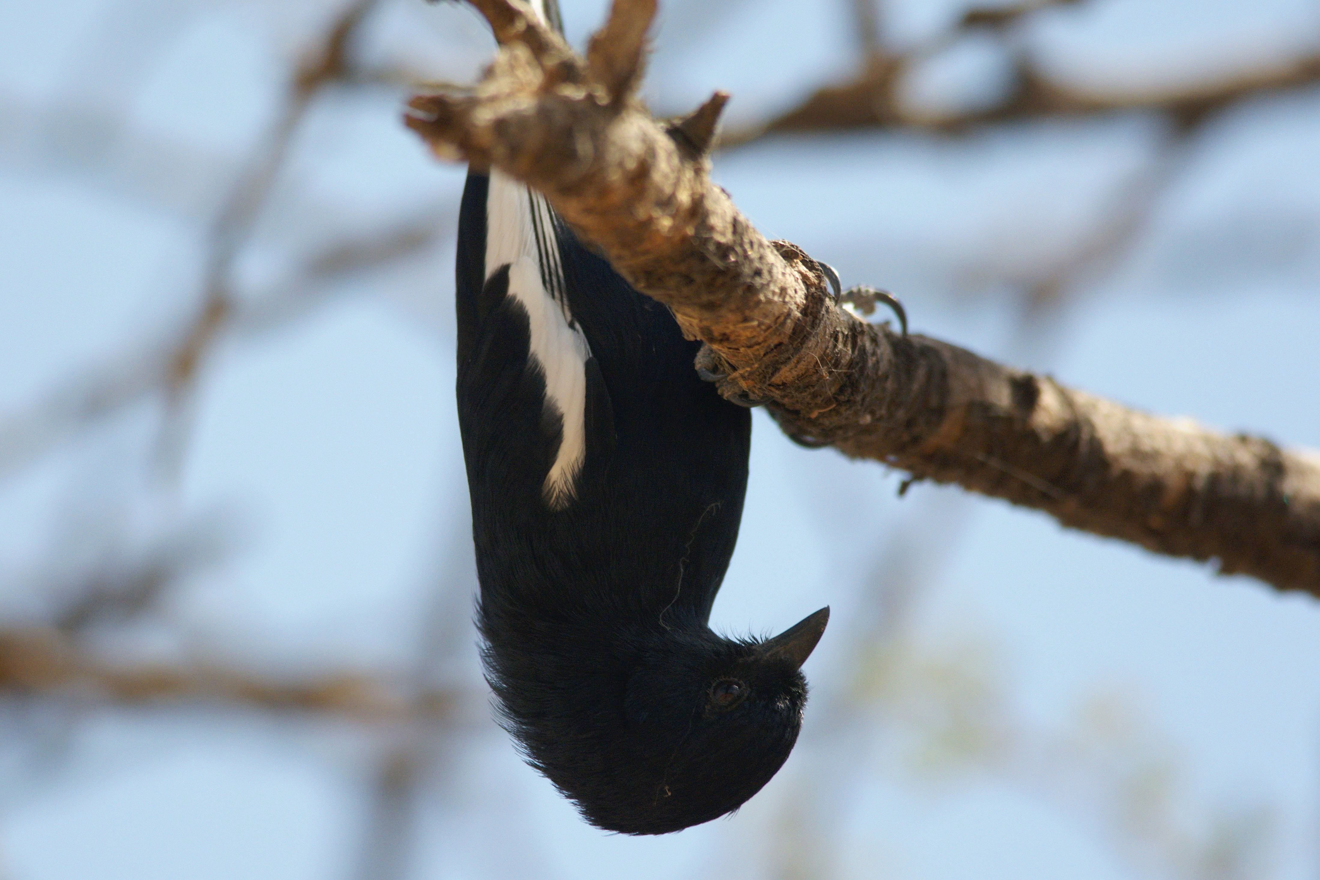 White-winged black tit at Lake Abiata, Ethiopia